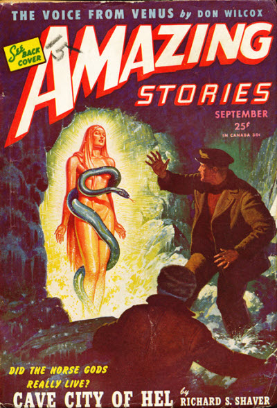 Copy of Amazing Stories, September 1945